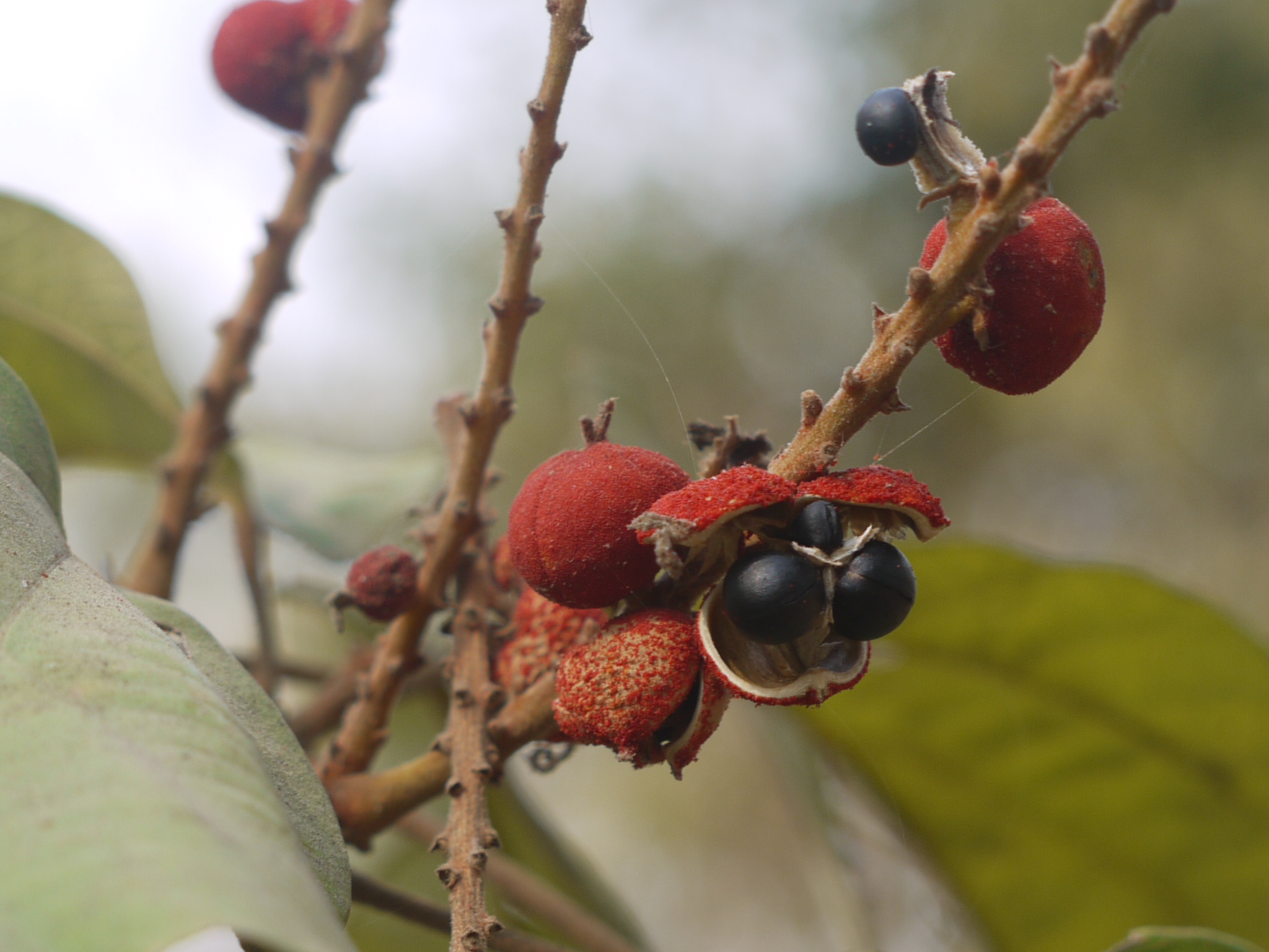 Euphorbiaceae (castor, euphorbia, or spurge family) » Mallotus philippensis mal-LOH-tus -- meaning fleecy, referring to the seed capsule fil-lip-EN-sis -- of or from the Philippines; also spelled philippinensis commonly known as: dyer's rottlera, kamala dye tree, monkey face tree, orange kamala, red kamala, scarlet croton • Bengali: কমলা kamala • Hindi: कामला kamala, रैनी raini, रोहन rohan, रोहिनी rohini, सिन्धुरी sinduri • Kannada: ಕುಮ್ಕುಮದ ಮರ kunkuma-damara • Malayalam: ചെങ്കൊല്ലി cenkolli, കുങ്കുമപ്പൂമരം kunkumappuumaram, കുരങ്ങുമഞ്ഞശ് kurangumanjas, നാവട്ട naavatta, നൂറിമരം nuurimaram • Marathi: केशरी kesari, शेंदरी shendri • Sanskrit: काम्पिल्यक kampilyaka • Tamil: கபிலப்பொடி kapila poti, குரங்குமஞ்சணாறி kuranku-mañcanari • Telugu:కుంకుమ చెట్టు kunkuma-chettu Native to: China, India, Sri Lanka, Myanmar, Vietnam, Malaysia, Philippines, Australia References: M.M.P.N.D. • World Agroforestry Centre • Forest Flora of Andhra Pradesh